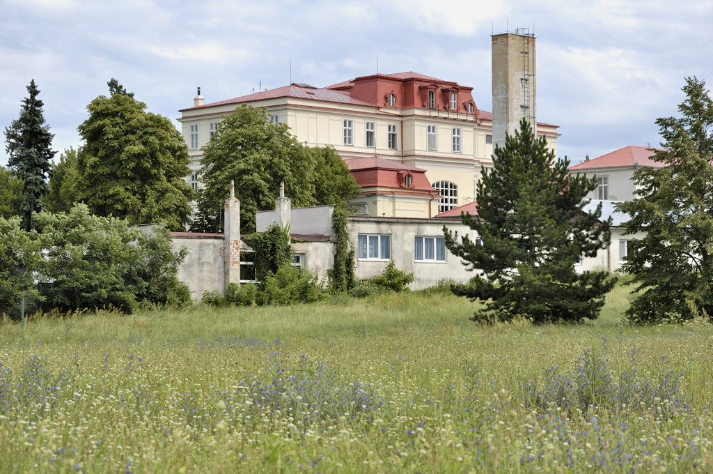 Manor house in Moravský Svätý Ján